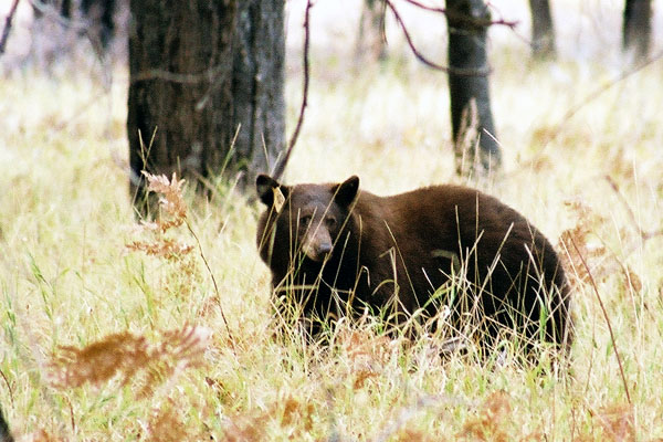 American Black Bear (Ursus americanus) — tagged, in Yosemite Valley.